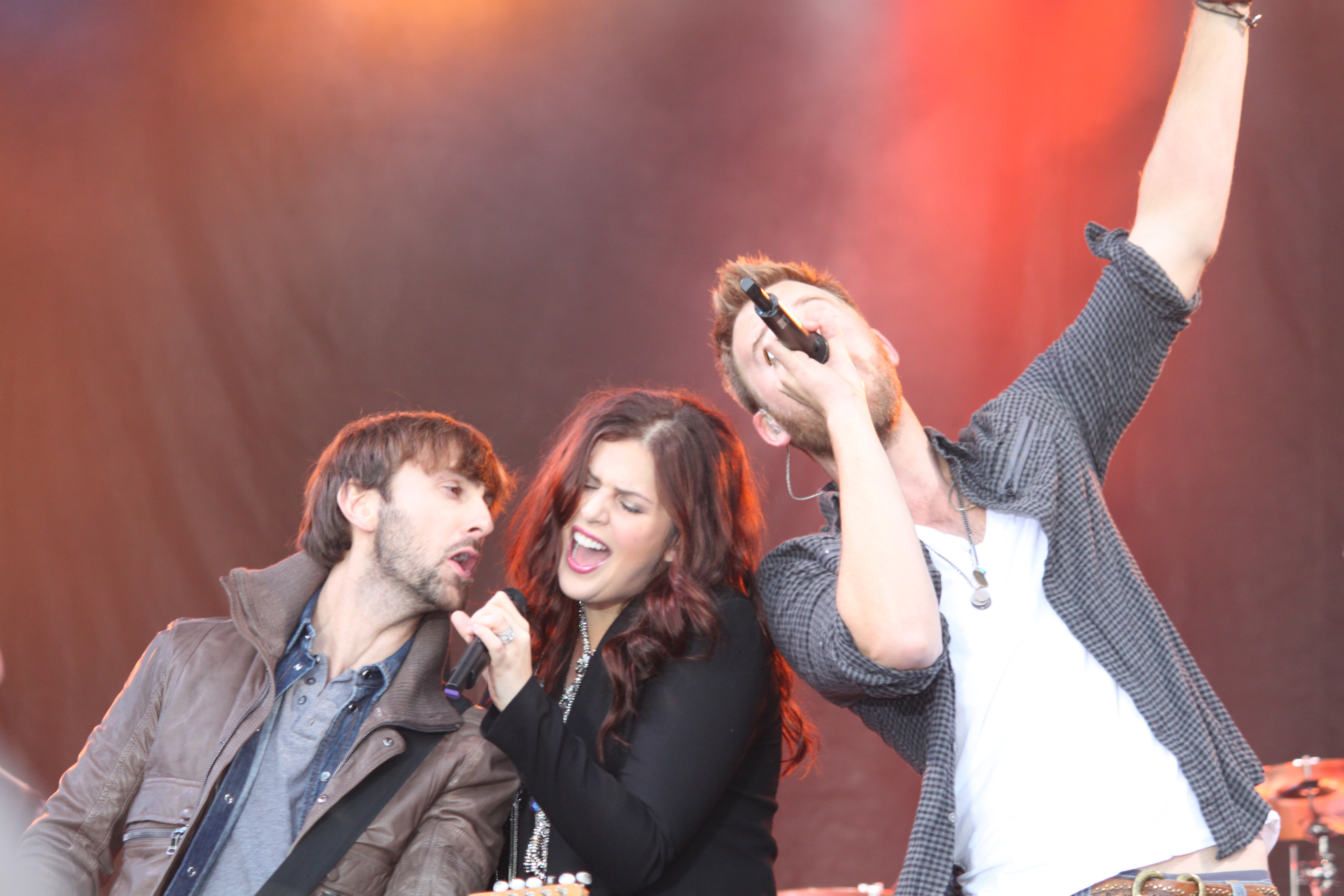 Lady Antebellum play in Charlotte